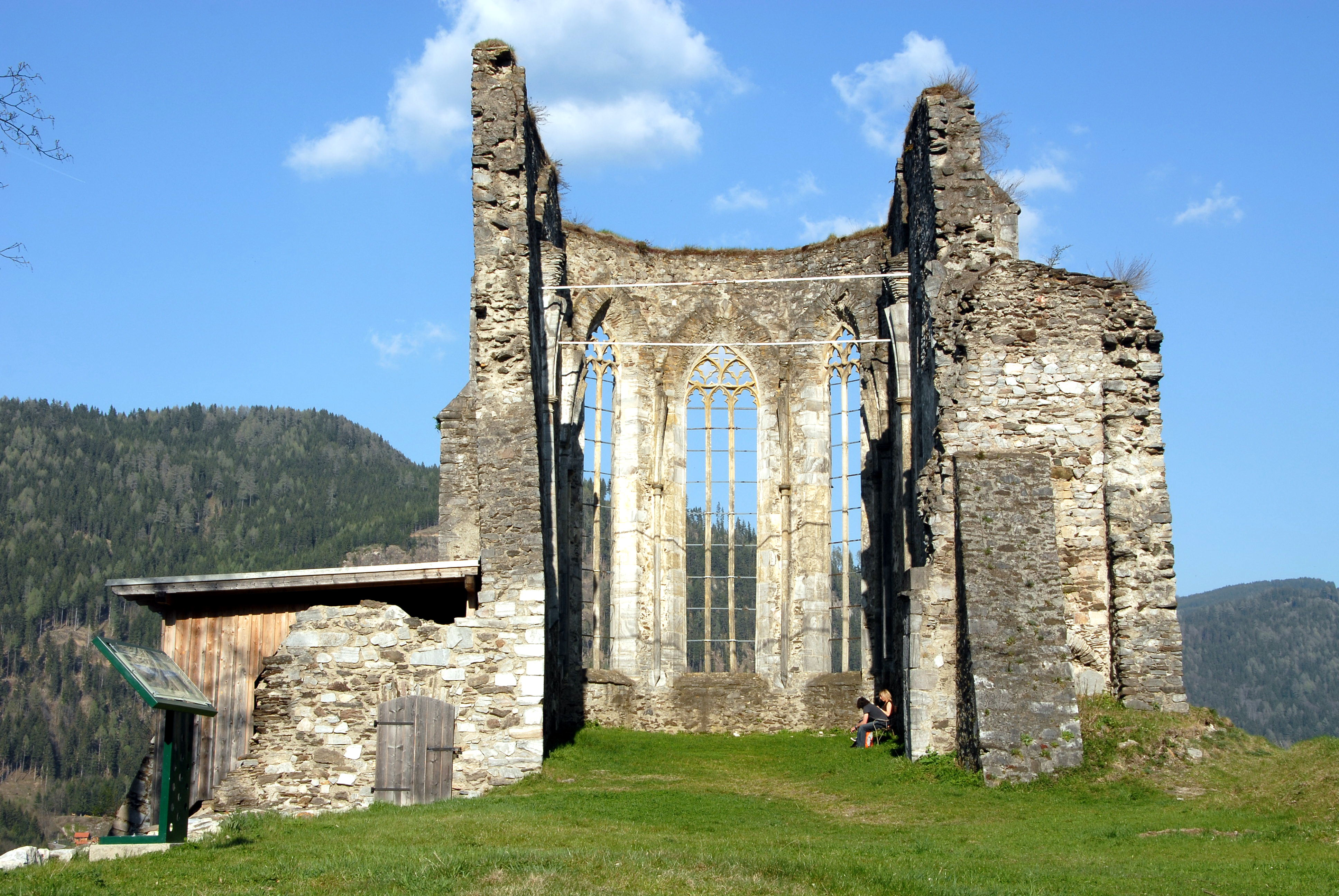 Church ruin Virigilienberg from the 13th/14th century, medieval city of Friesach, district Sankt Veit, Carinthia, Austria, EU